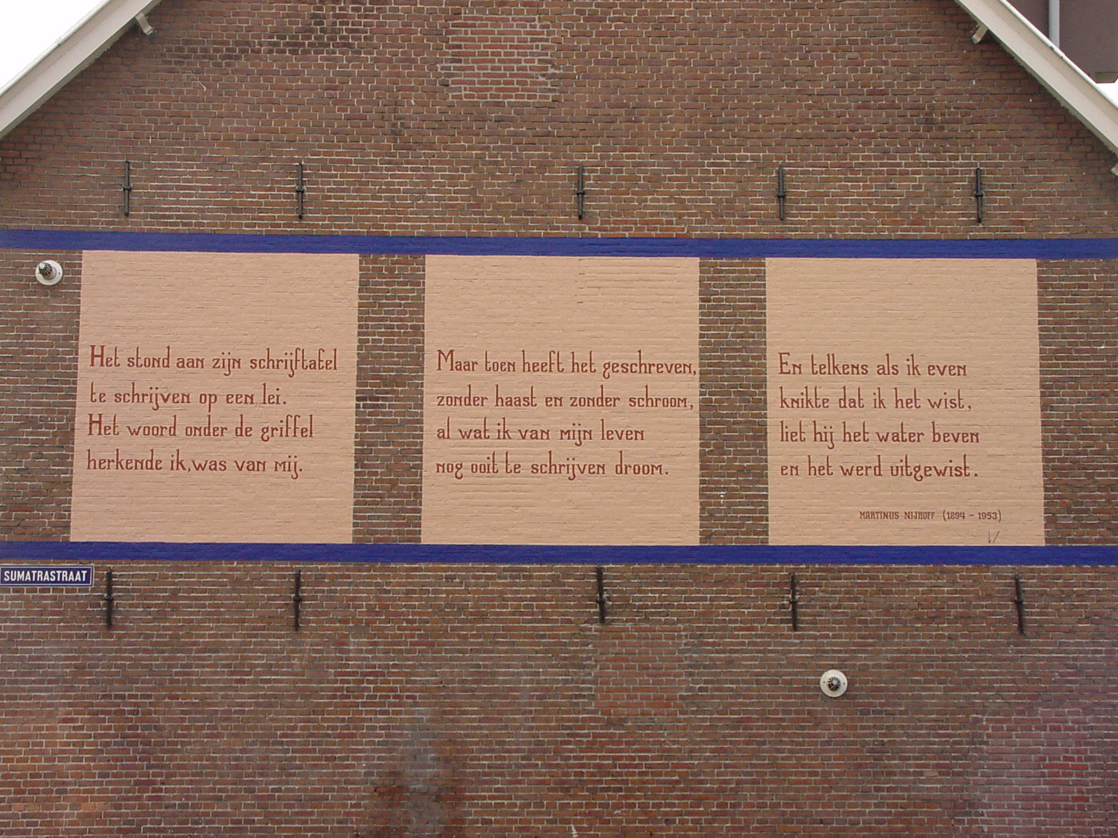 Wallpoem in de city of Leiden in the Netherlands.